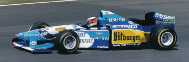 Michael Schumacher driving for Benetton Formula at the 1995 British Grand Prix.